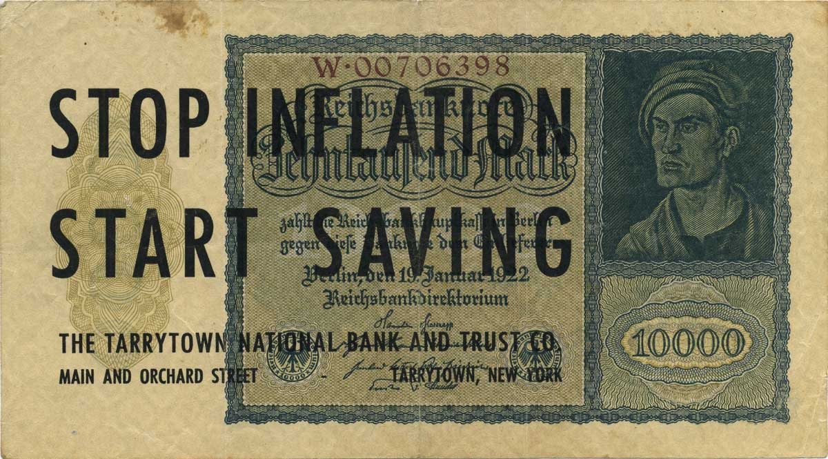 Surcharge "STOP INFLATION START SAVING"de la Tarrytown National Bank and Trust Co. New york sur un billet d'inflation allemand daté de 1922. " Propagande effectuée en 1930